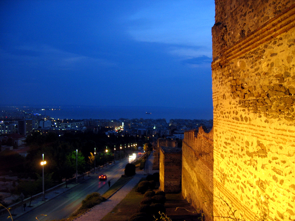 View from Thessaloniki's ano poli its byzantine walls